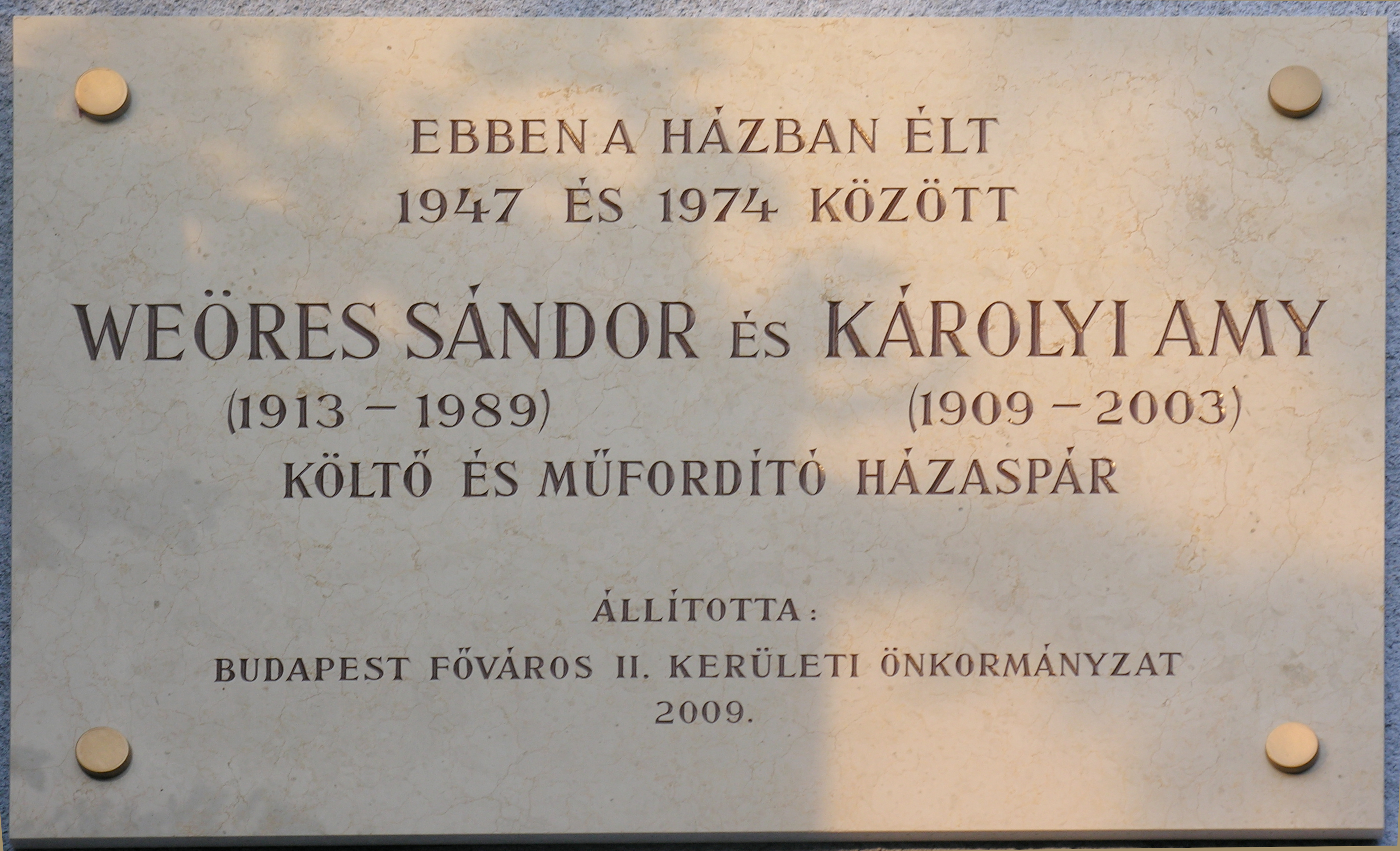 Commemorative plaque of Sándor Weöres and Amy Károlyi, Budapest District II, Törökvész Street No 3/c